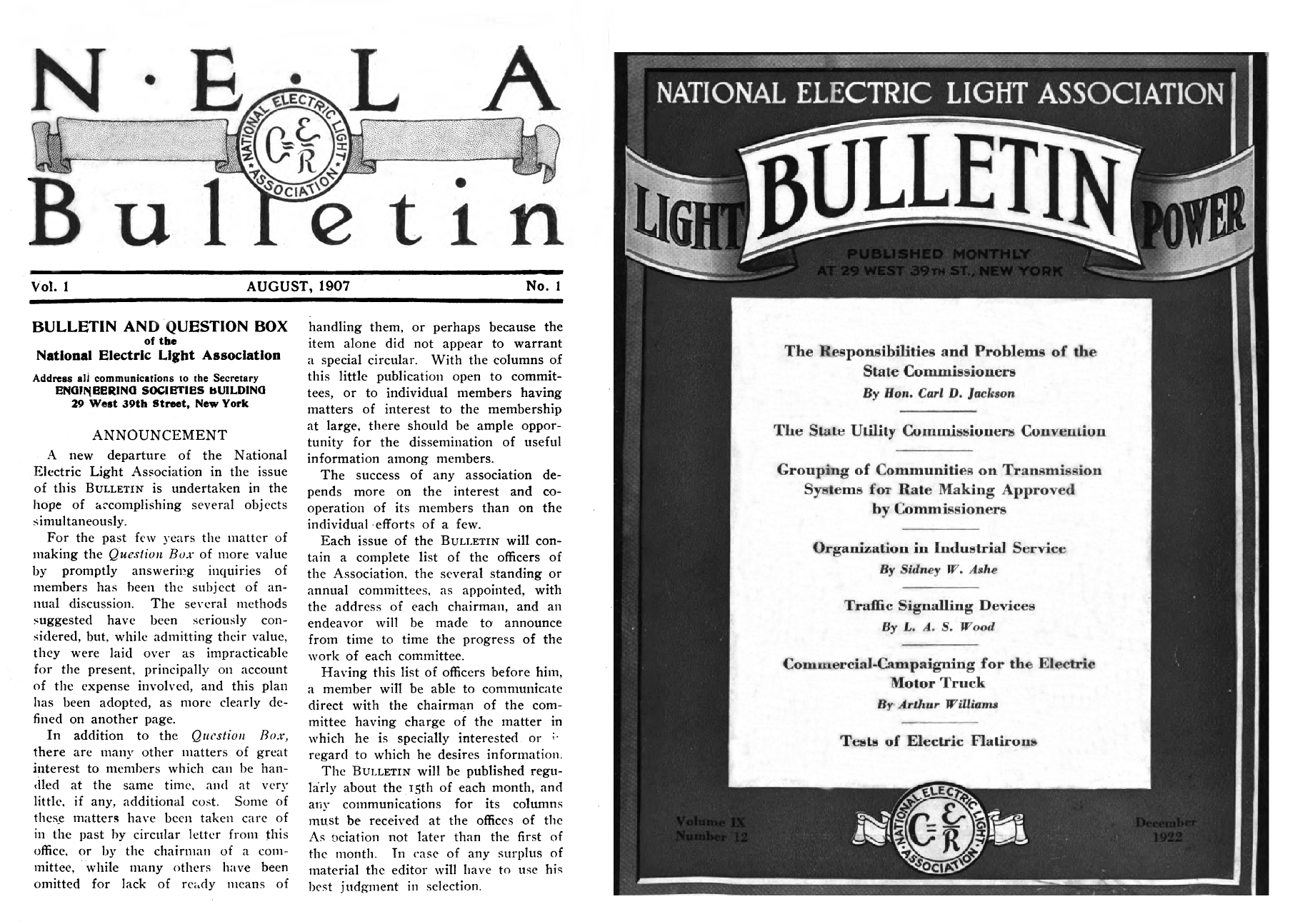 The NELA put out monthly Bulletins starting in 1907. The Bulletins were sent to its members and covered the activities of the NELA and the electric industry